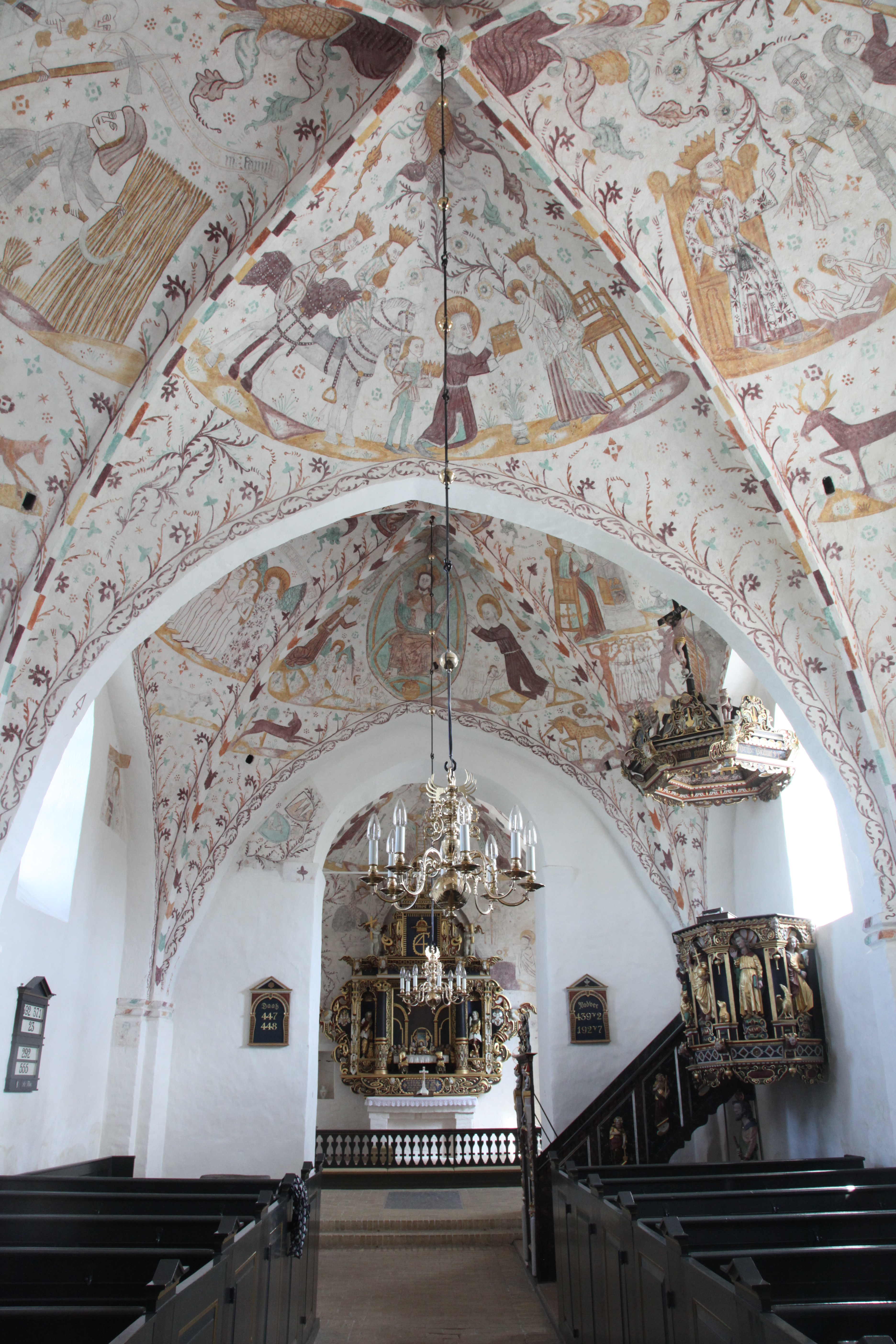 Elmelunde church on Møn in Denmark